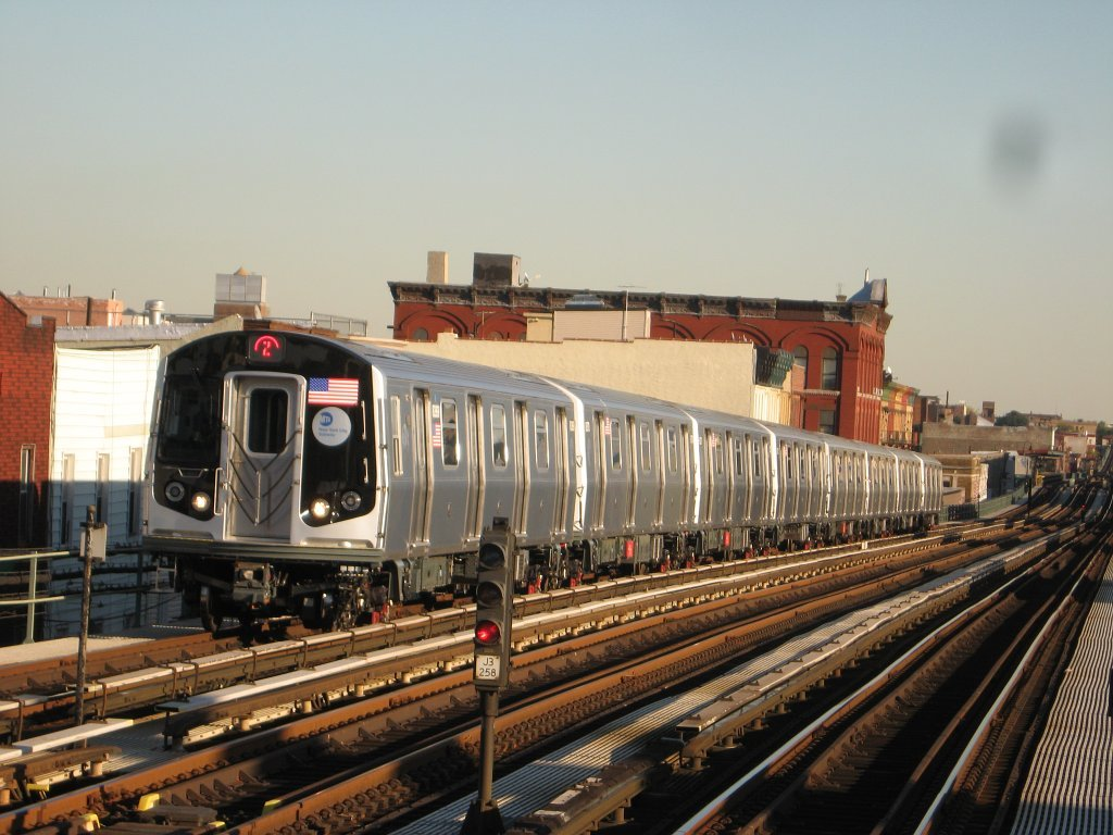 R160A Z train enters the Kosciuszko Street station.